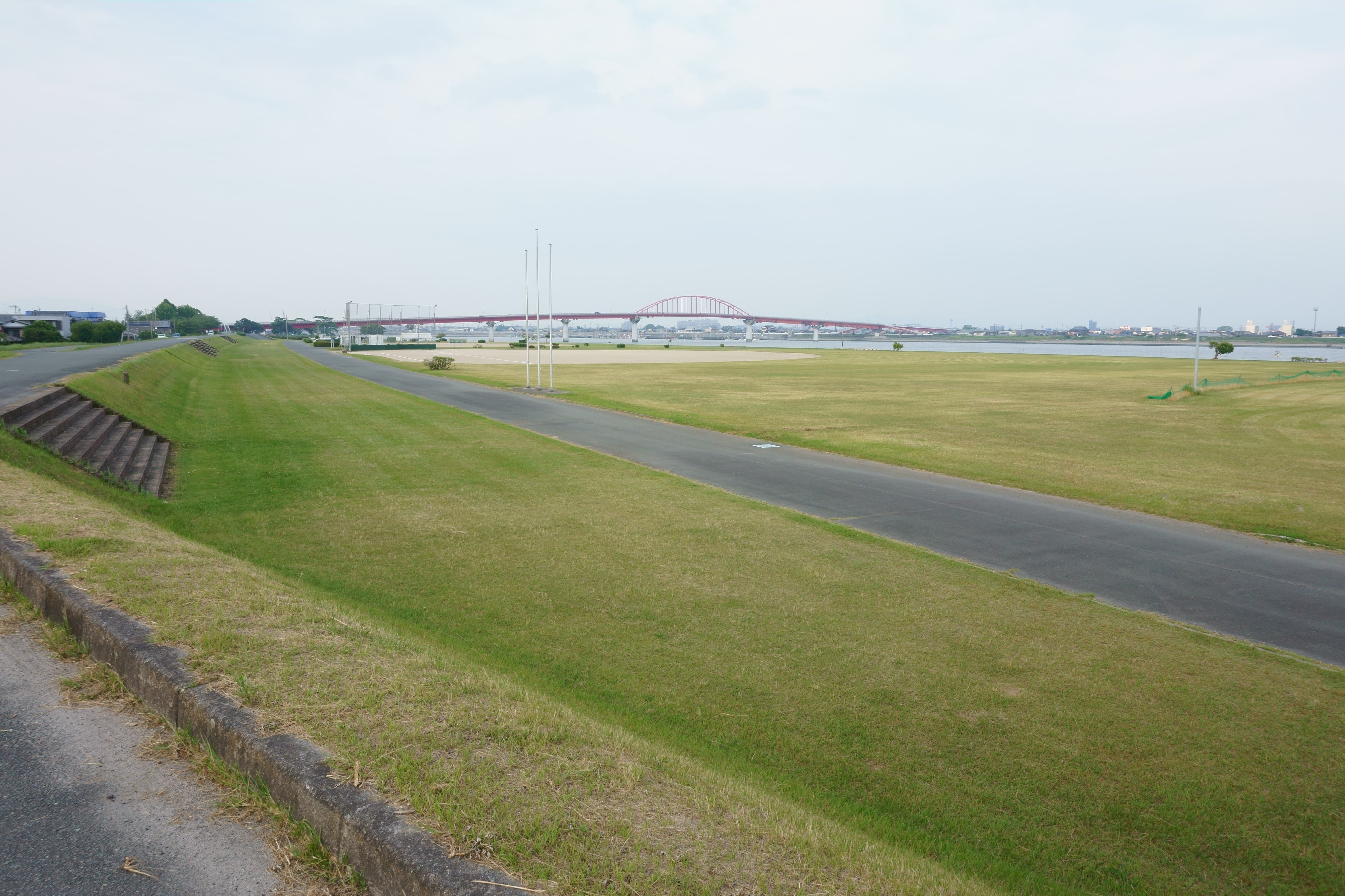 A ground of Chikugo river general sports park, in Onojima, Okawa city, Fukuoka prefecture.